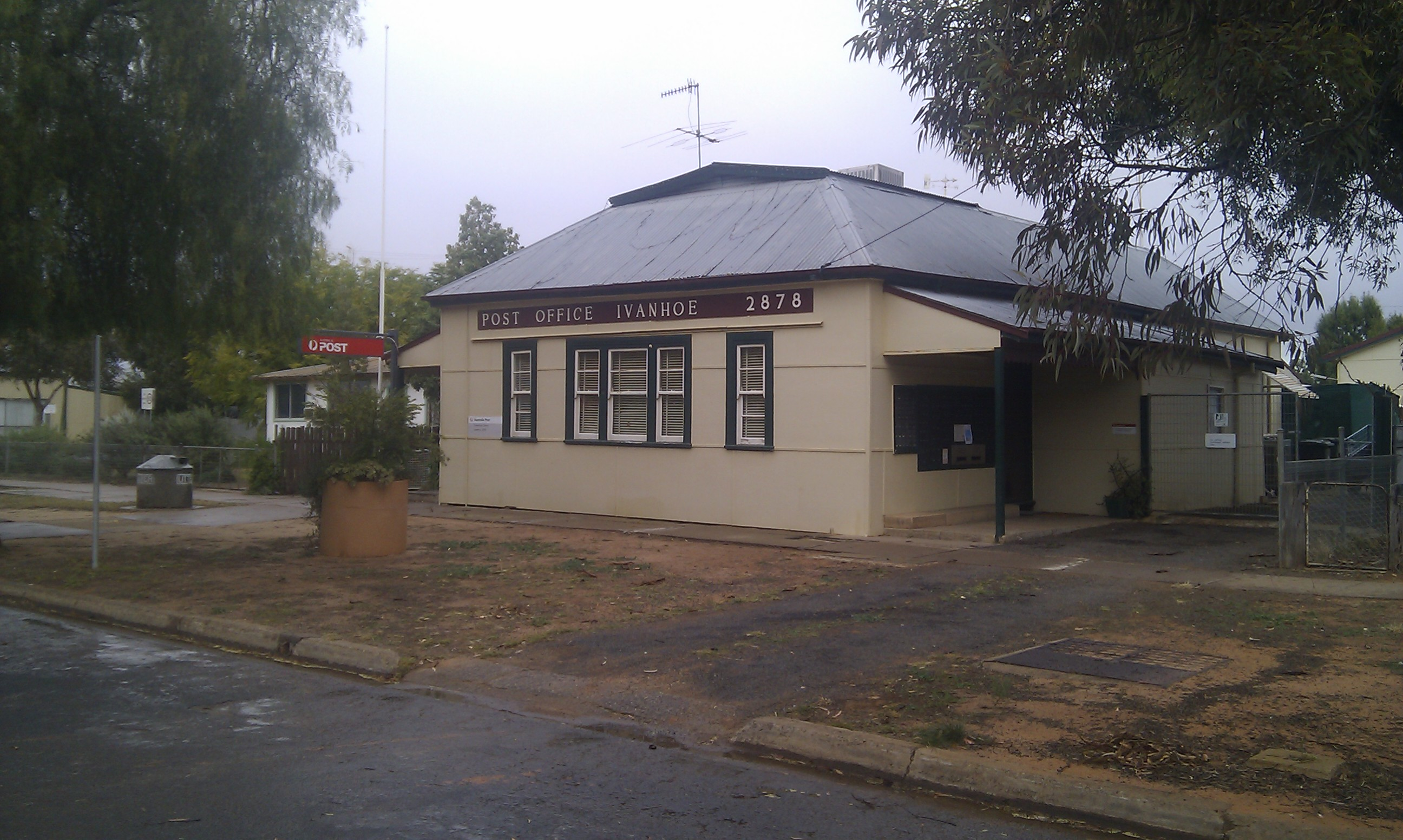 Post Office building at Ivanhoe, New South Wales, Australia. Photo taken in 2011